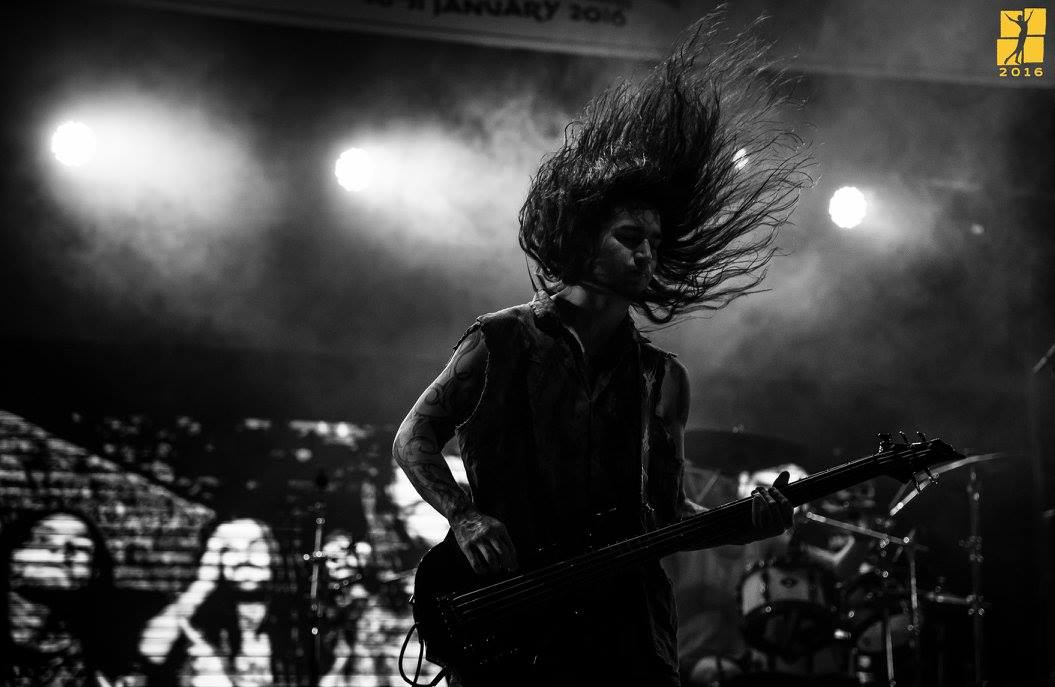 Metastasis at Alcheringa